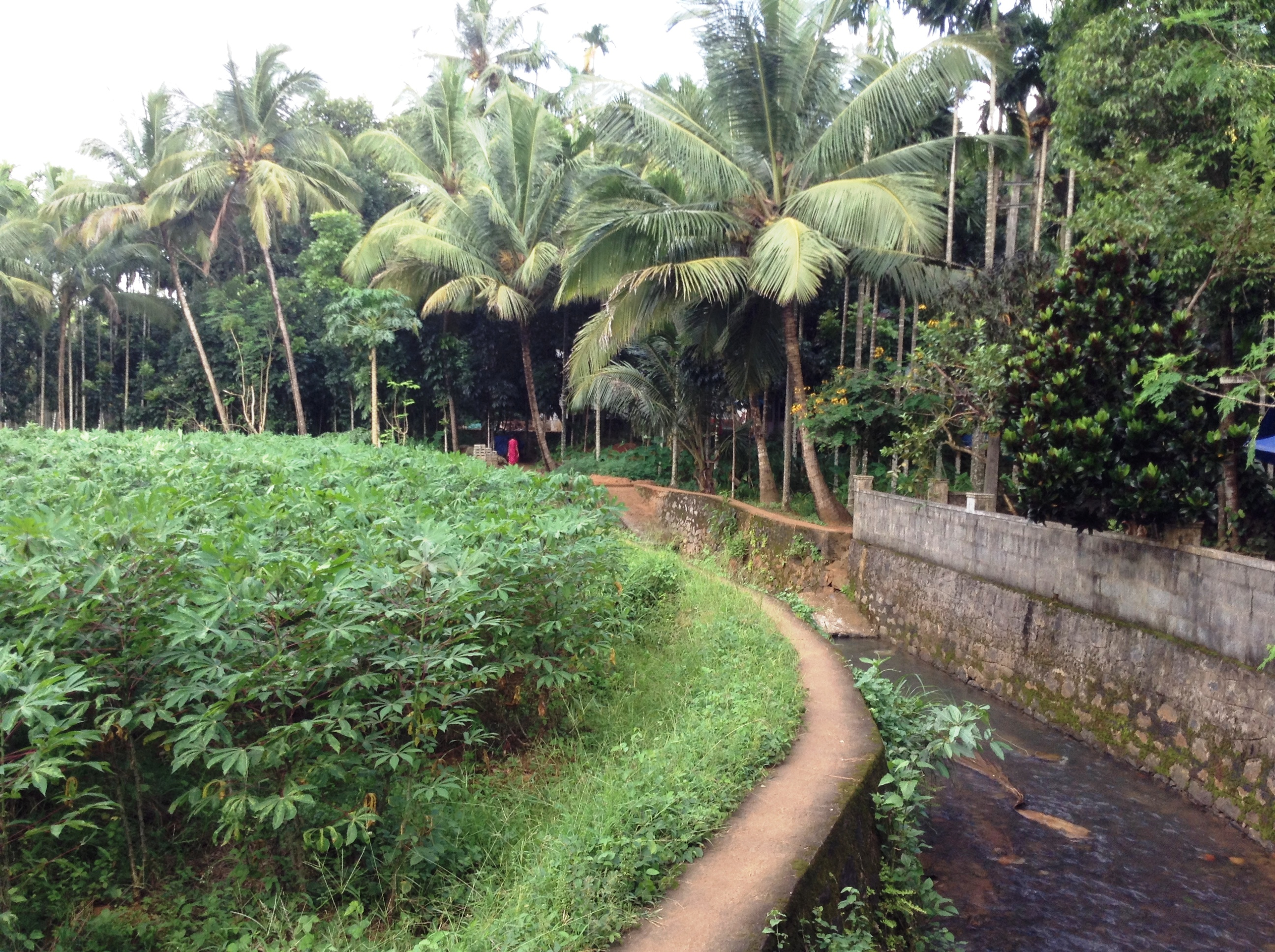 Irrigation Canal,Konikkallu